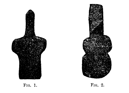 Drawing of /dessin de Grotta-Pelos Cycladic figurines 3200-2800 BC.